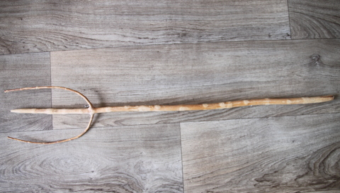 Distaf of a branch of wood from Greece